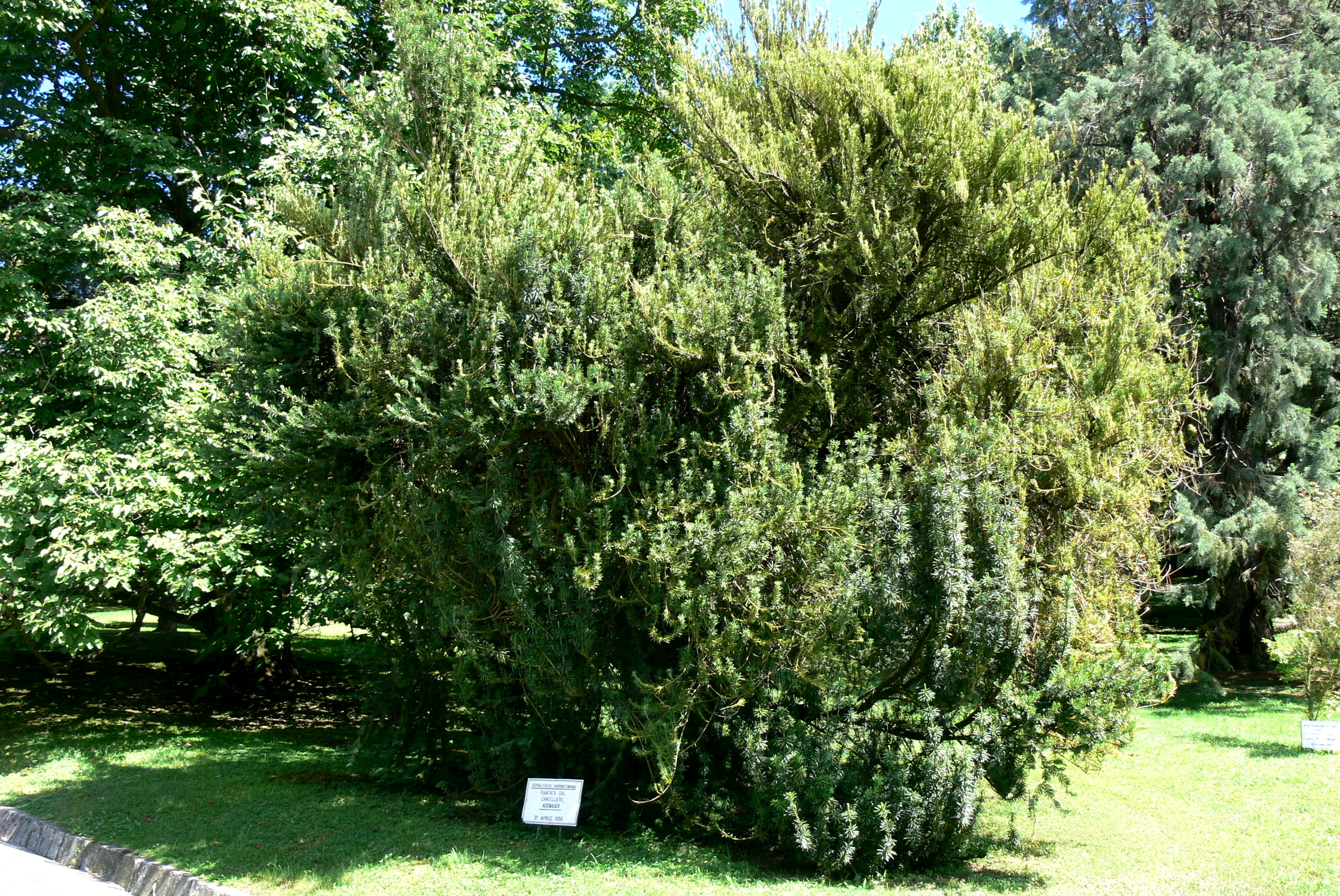 Villa Taranto ( Verbania-Pallanza ). Cephalotaxus harringtonii, planted 1956-04-21 by Konrad Adenauer, Chancellor of the Federal Republic of Germany.